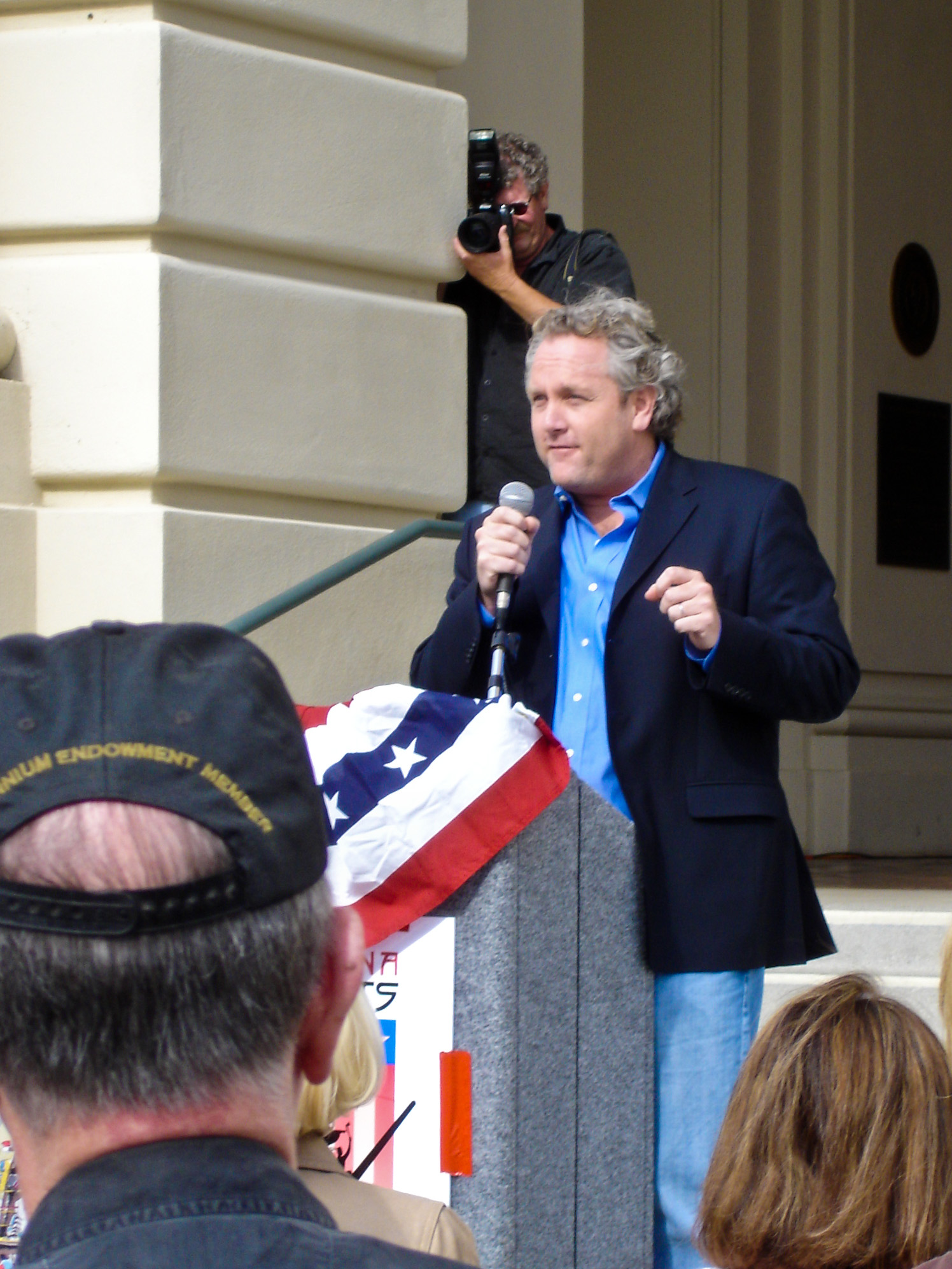 Andrew Breitbart - Reminding us all to treasure the freedoms we have in the U.S.A., particularly the freedom to dissent.